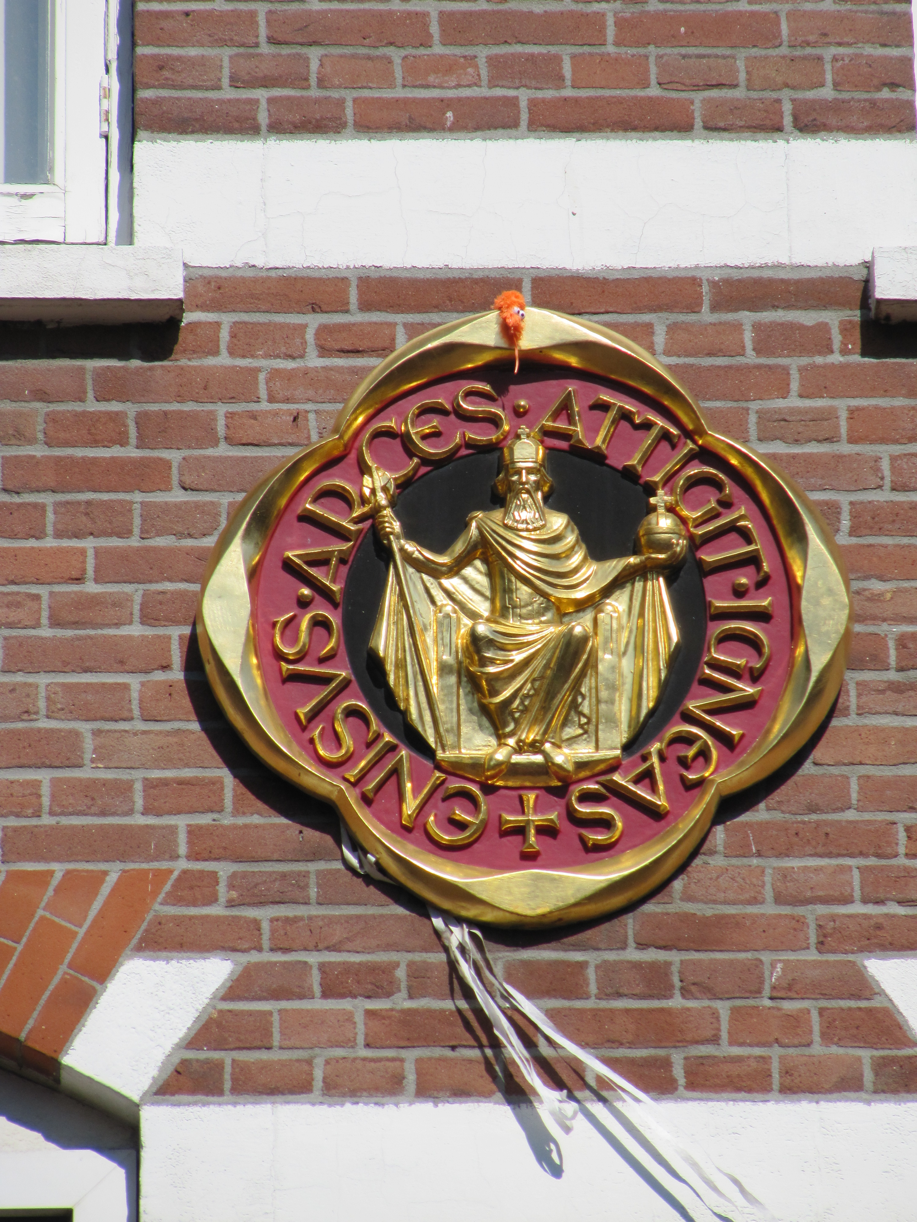 Corps shield of fraternity Carolus Magnus at the facade of Molenstraat 110 in Nijmegen, The Netherlands